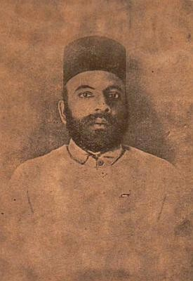 Hasrat Mohan during imprisonment, 1922-1924